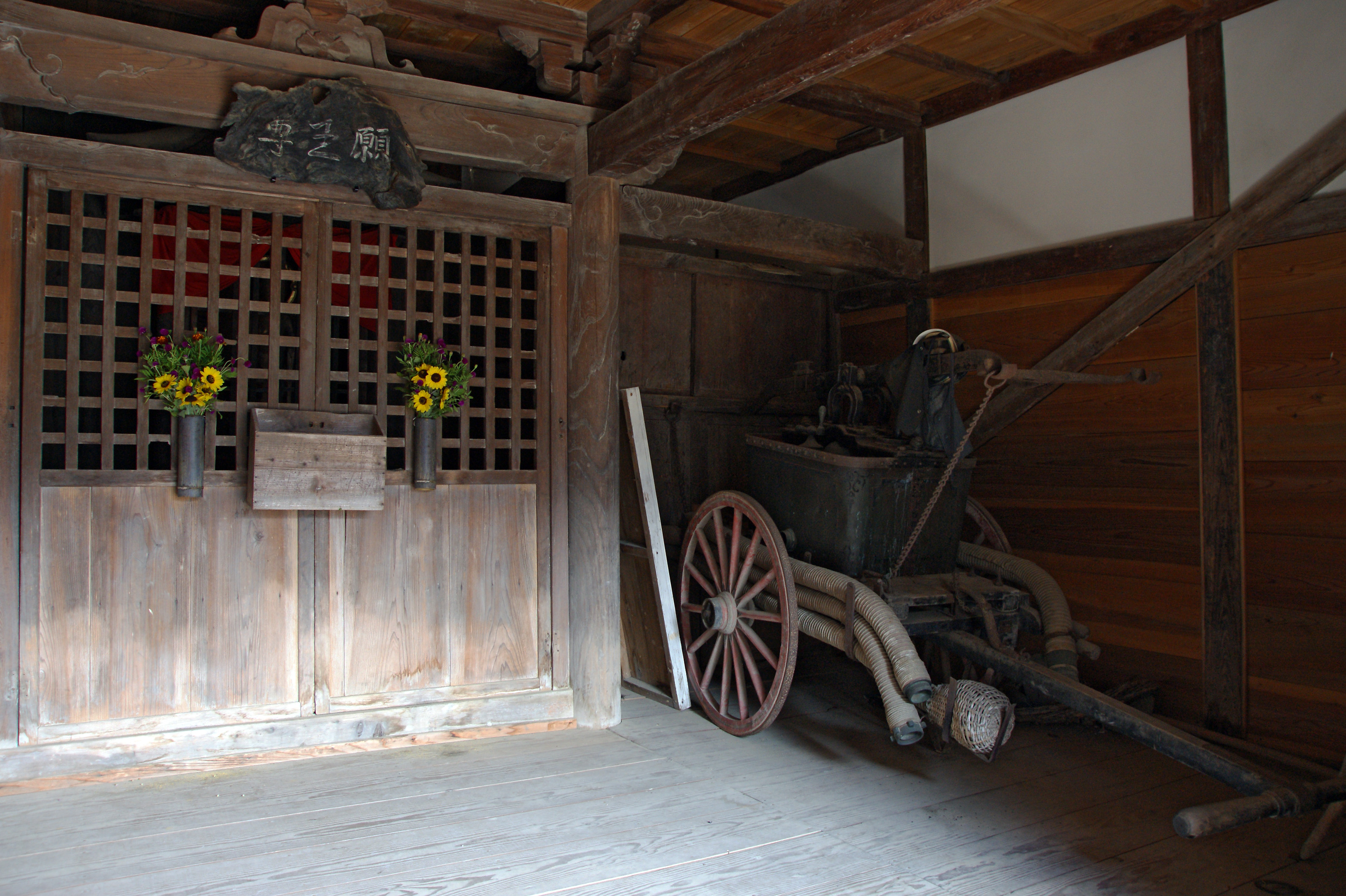 Miyakeku-hinomiyagura, Wakasa, Fukui prefecture, Japan